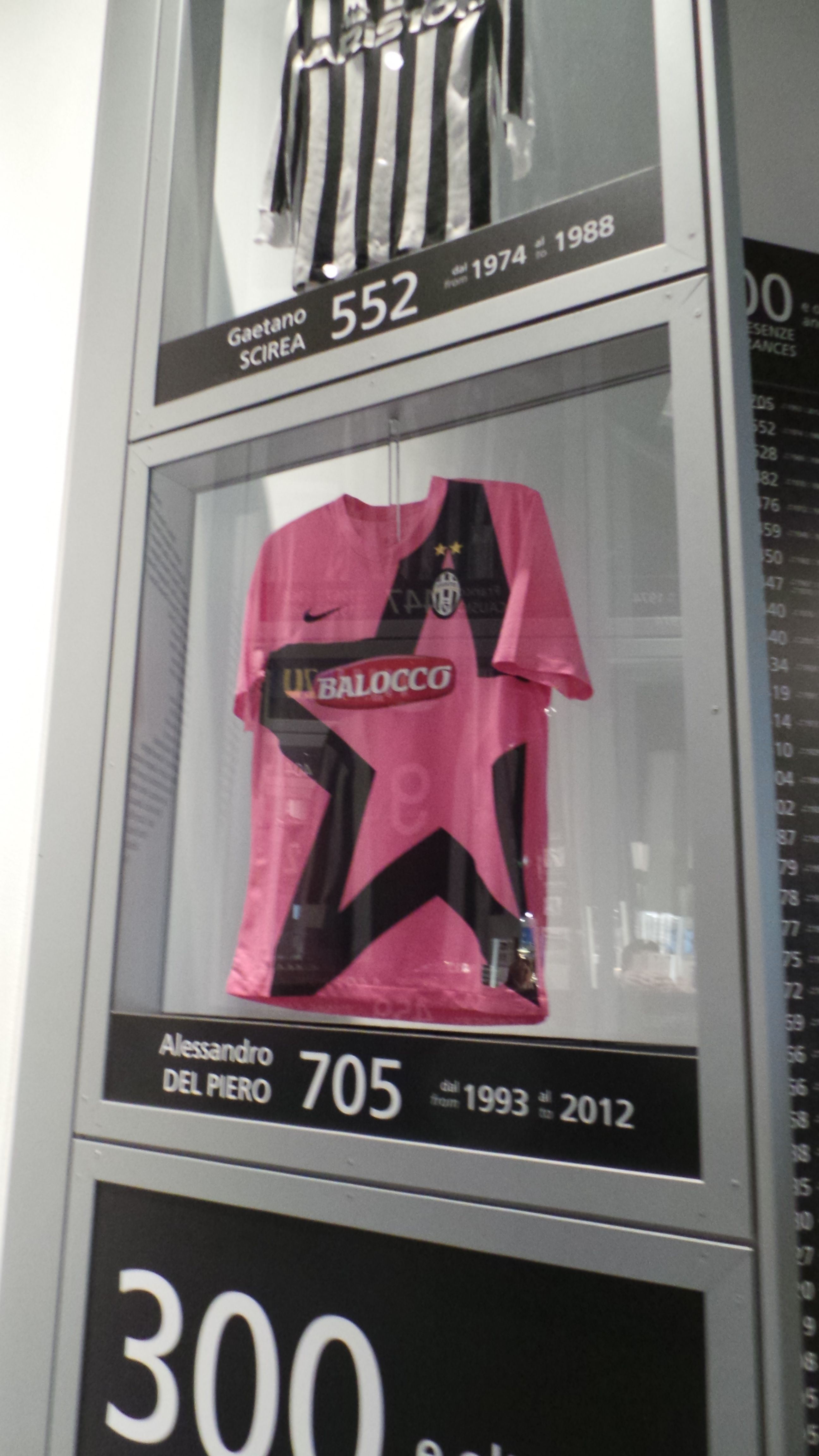 the game the captain played for Juventus